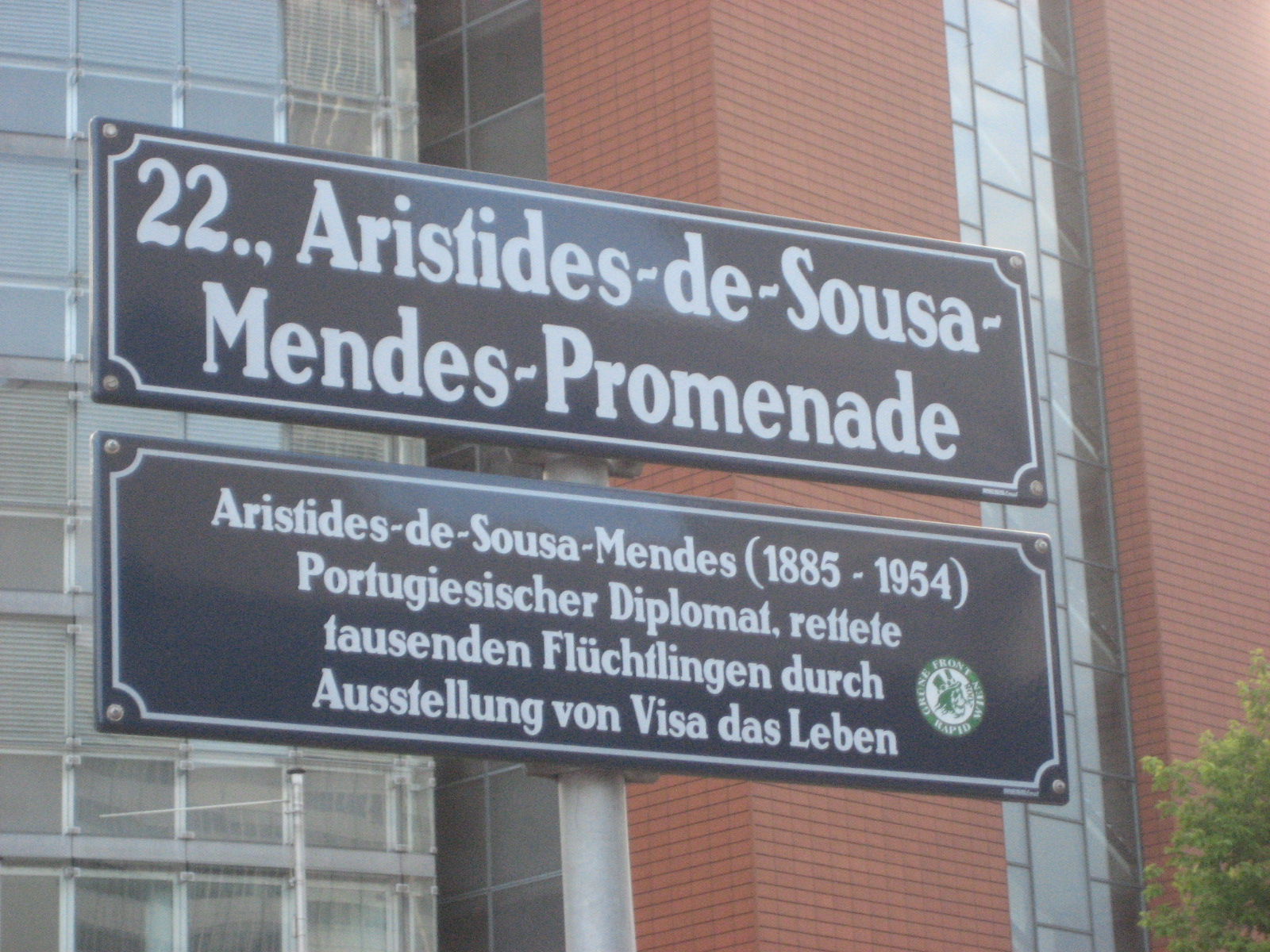 Street sign on Aristides-de-Sousa-Mendes-Promenade in Vienna that reads: "Aristides de Sousa Mendes (1885-1954), a Portuguese diplomat, saved the lives of thousands of refugees by issuing them visas"